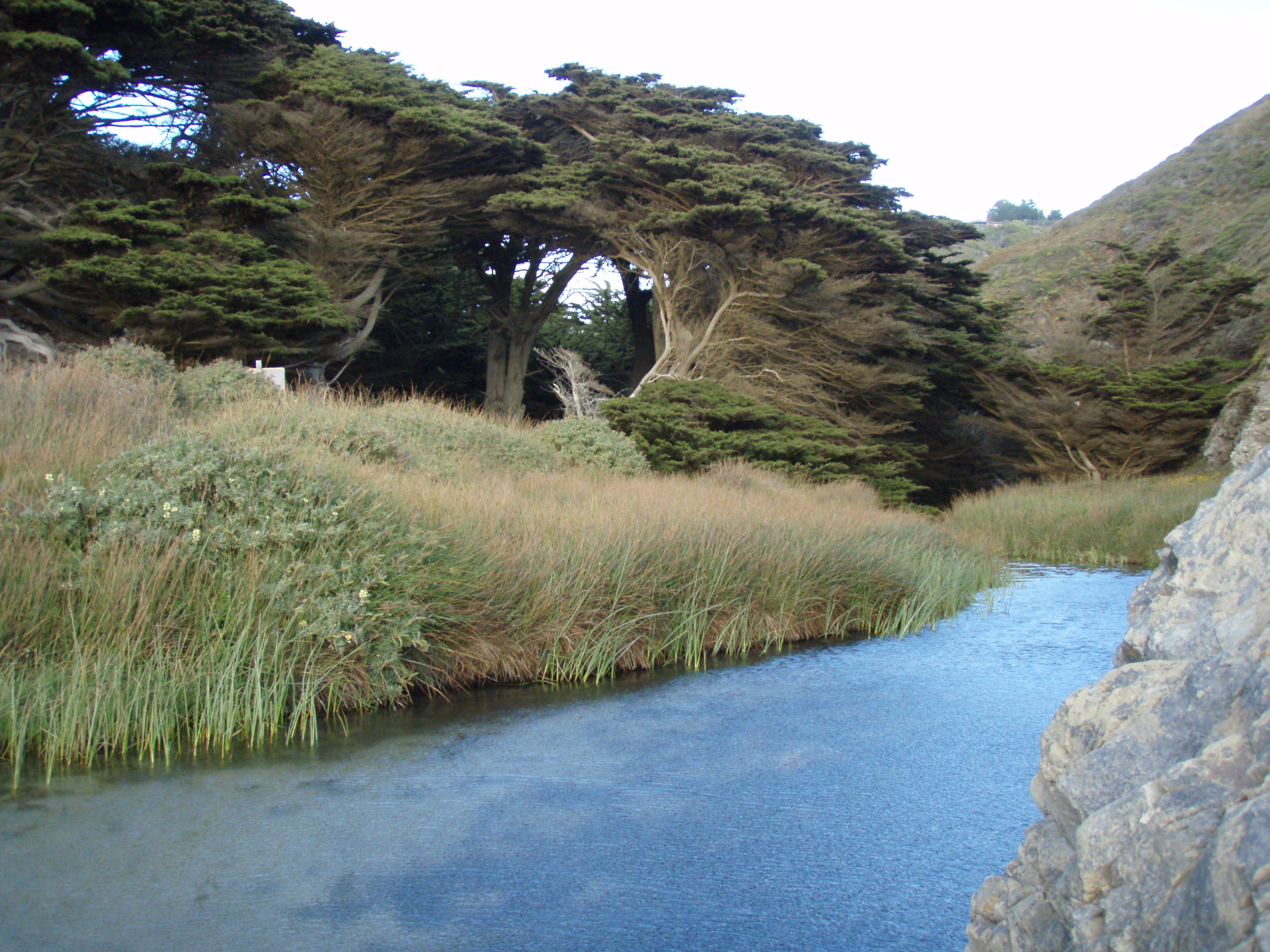 Pfeiffer Beach at the mouth of the Big Sur River in Pfeiffer Big Sur State Park, Big Sur, California. View looking upriver from the beach, with Cupressus macrocarpa trees.